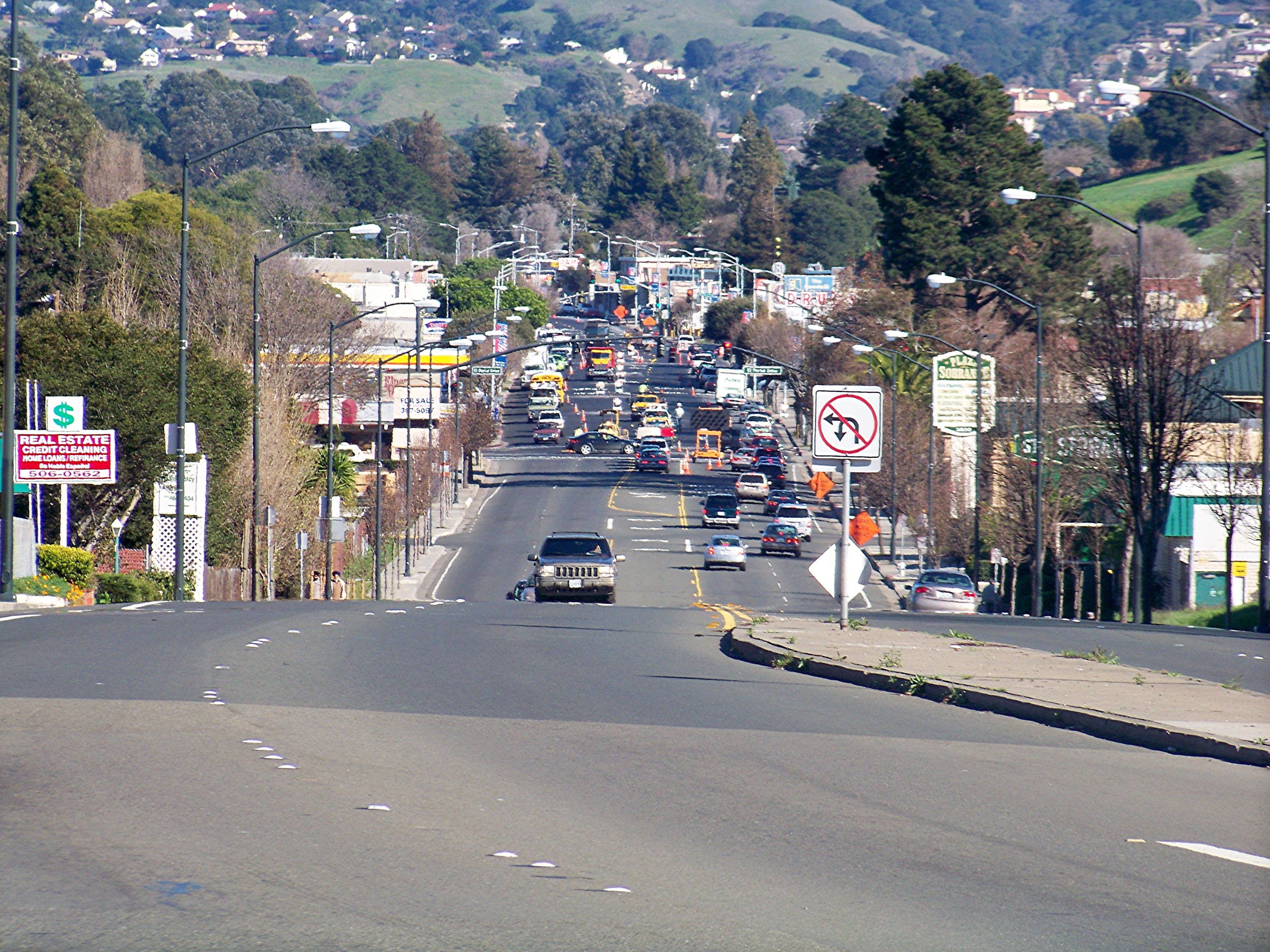 San Pablo Dam Road as goes eastward through El Sobrante, California